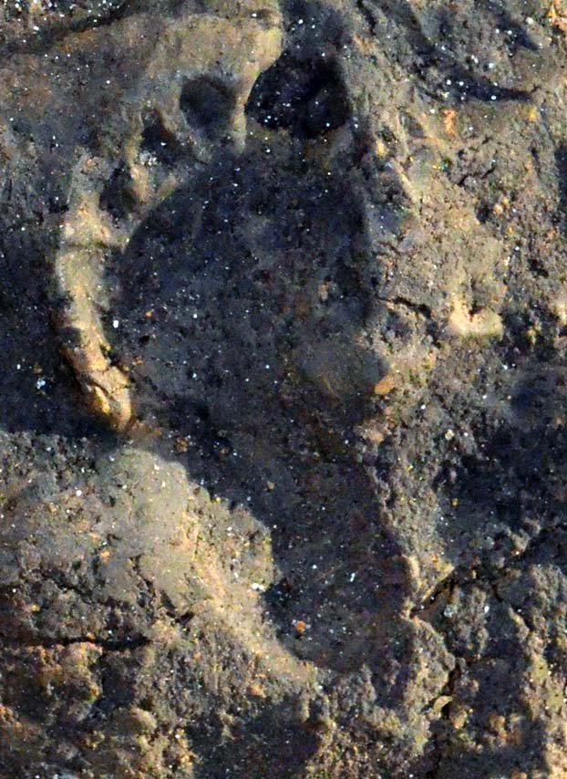 Grotta della Bàsura, Toirano (SV)